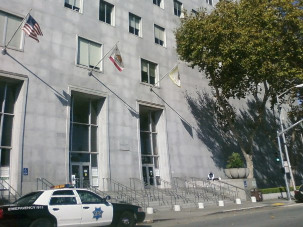 Front of 850 Bryant, taken on November 9, 2008 on a trip to San Francisco.